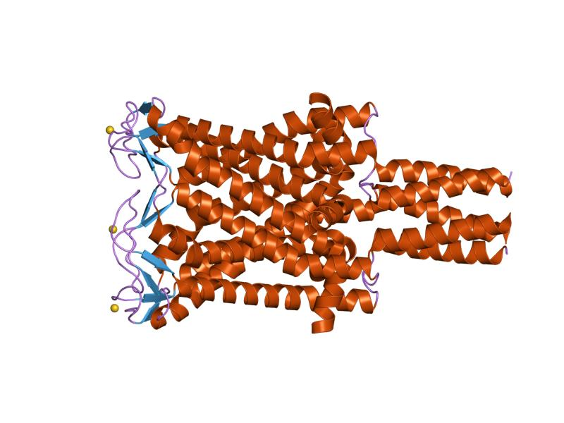 Cartoon representation of the molecular structure of protein registered with 2oar code.